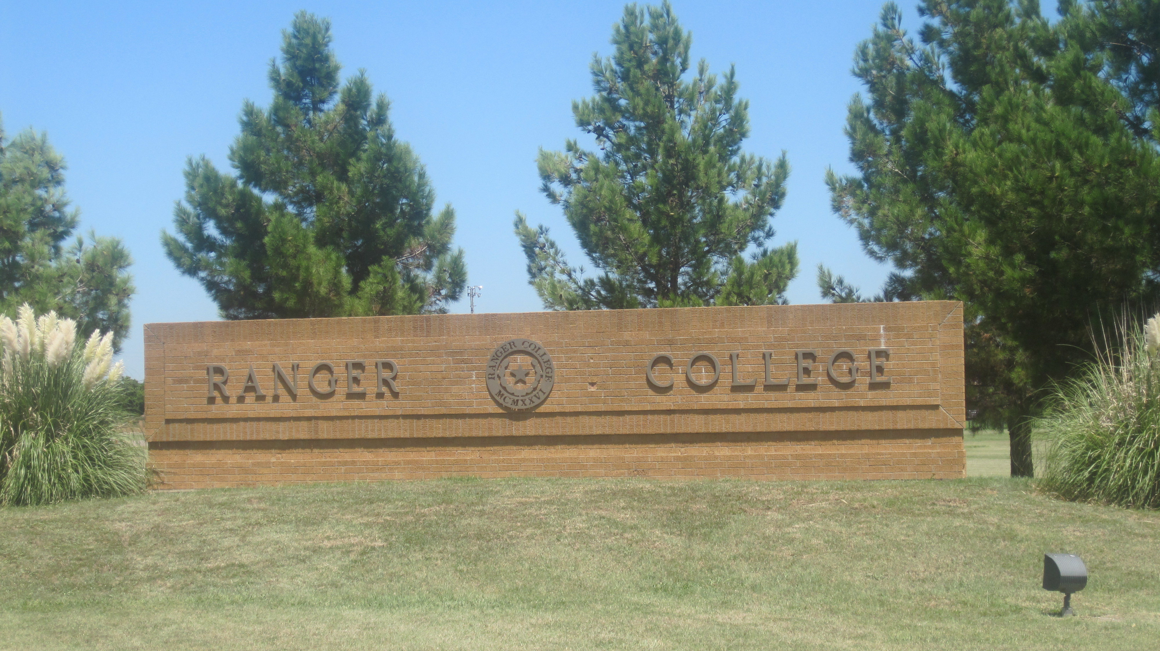 I took photo with Canon camera in Ranger, TX.